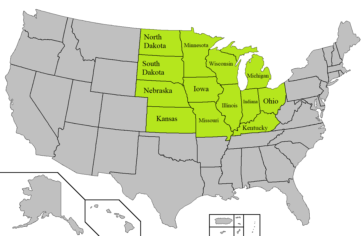 A map of the American Corn belt. Uses this map